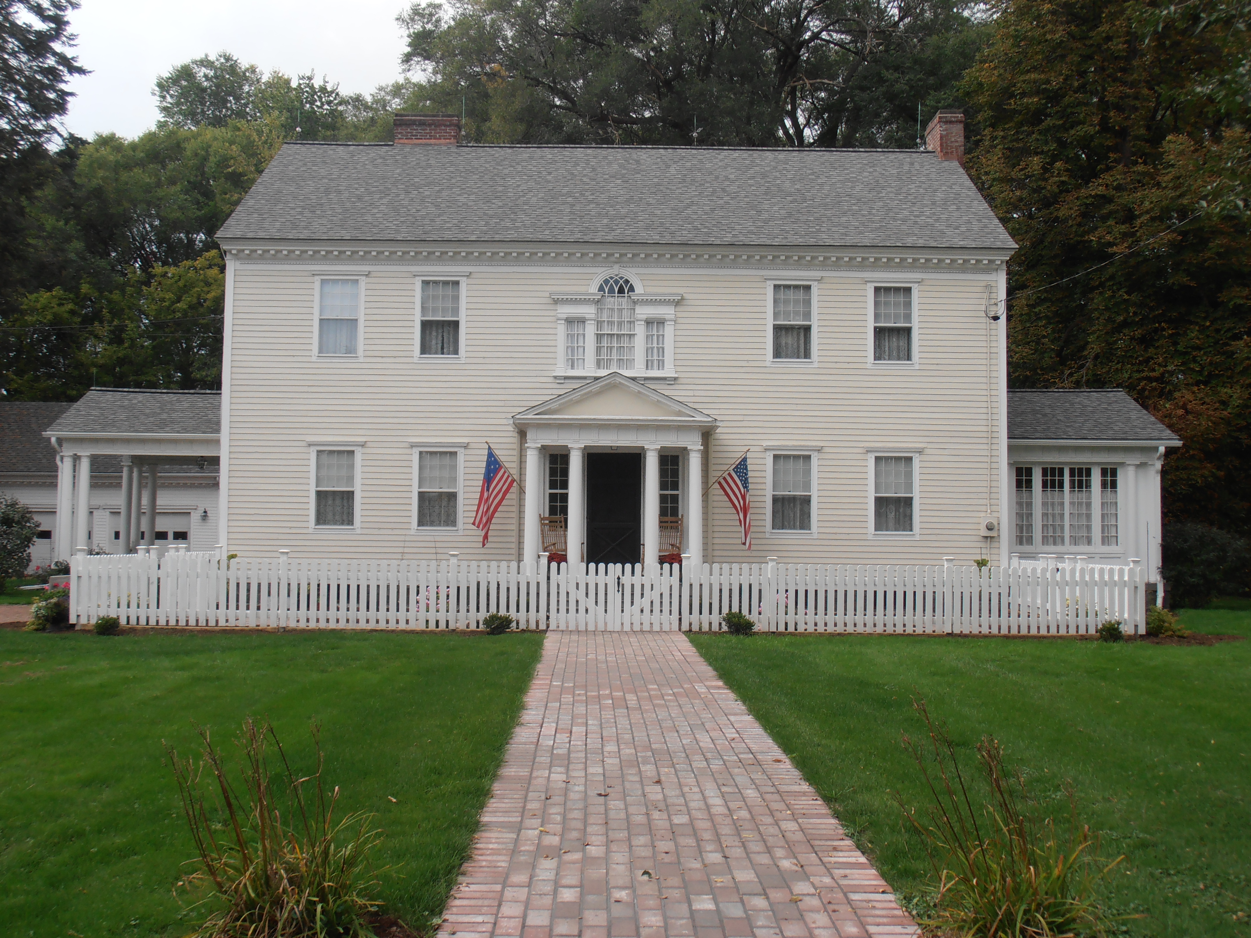 Washingtonian Hall Summer 2013